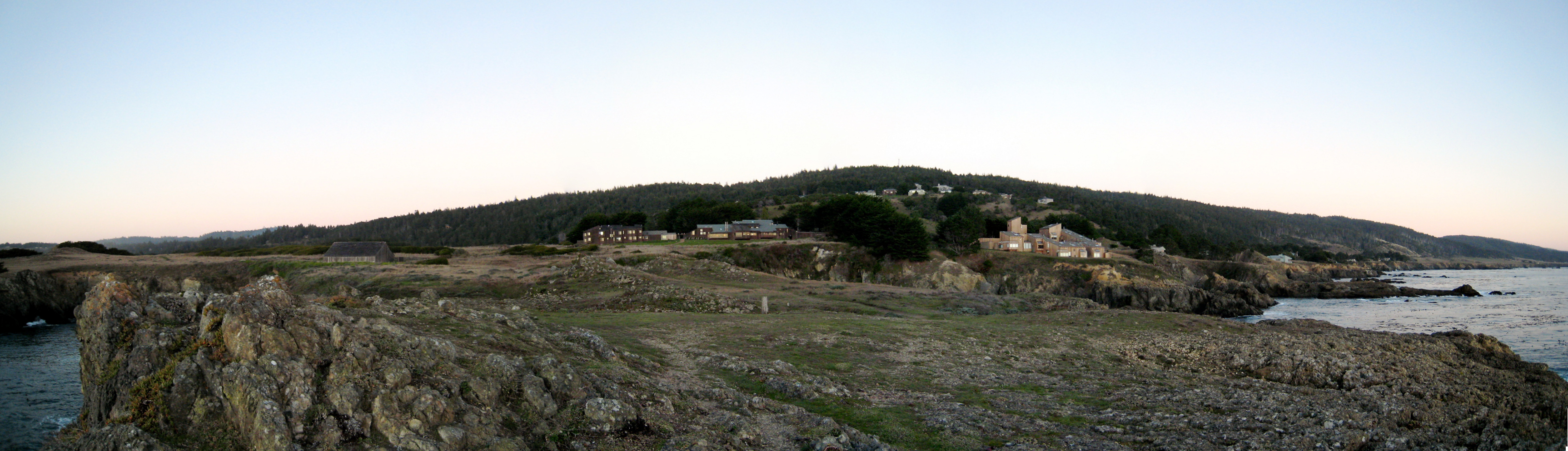 The following is the author's description of the photograph quoted directly from the photograph's Flickr page."Tim and I went on a trip to see Sea Ranch. It was a perfect day and it was a great trip. More pictures to come. "